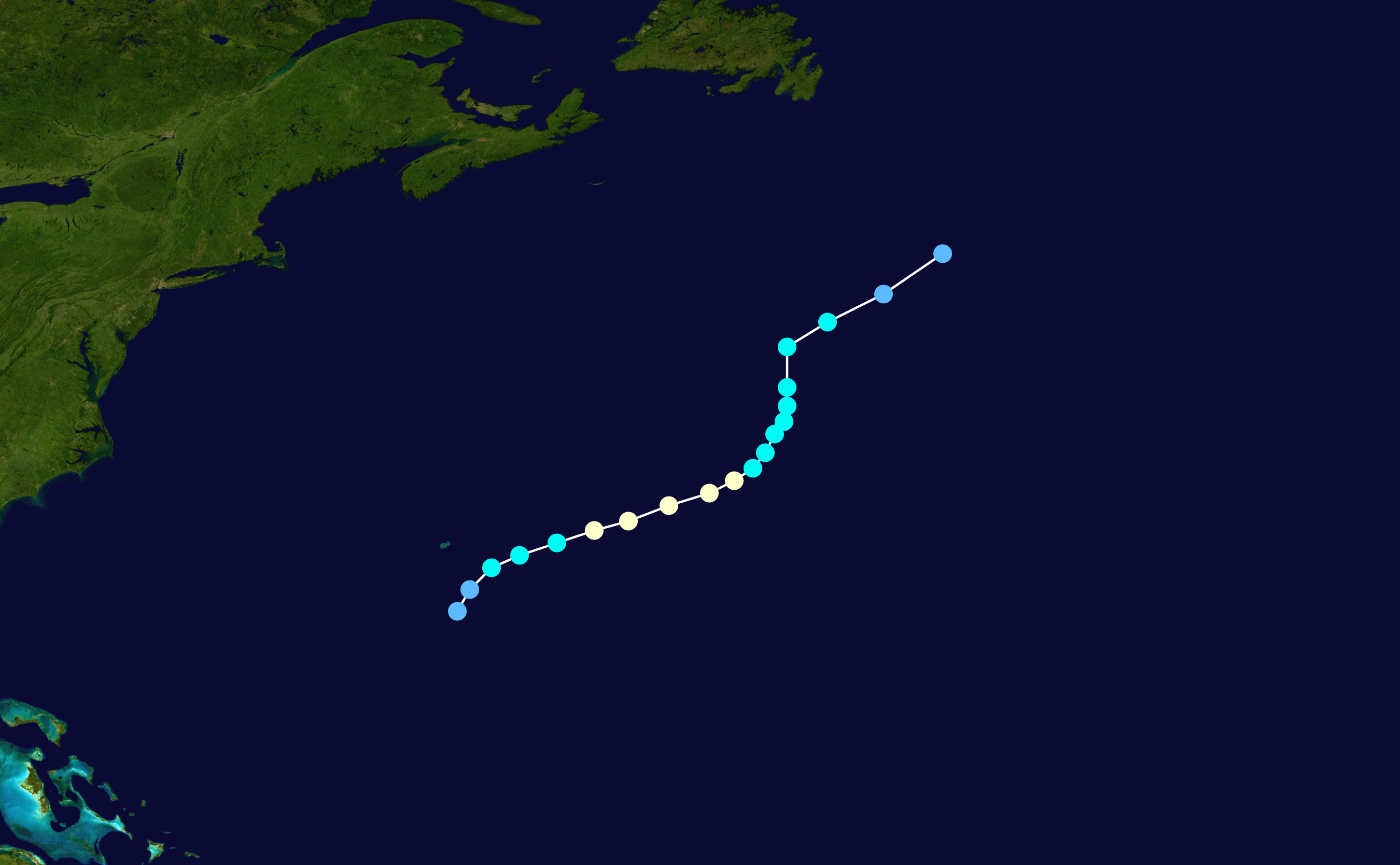 Hurricane Chantal (1983) track. Uses the color scheme from the Saffir-Simpson Hurricane Scale.